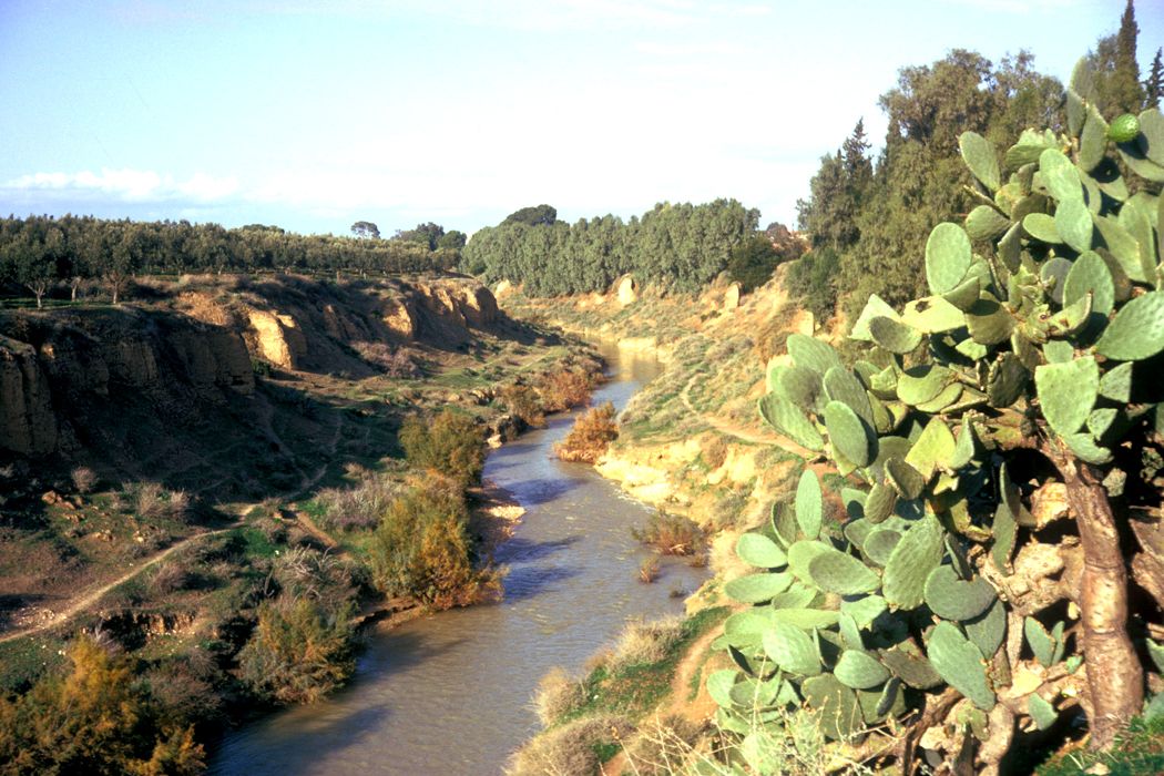 Oued Sig near Sig (Algeria).